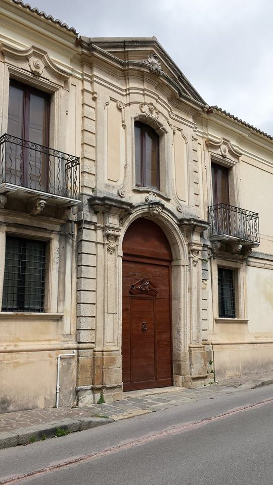 Palazzo a Taurianova